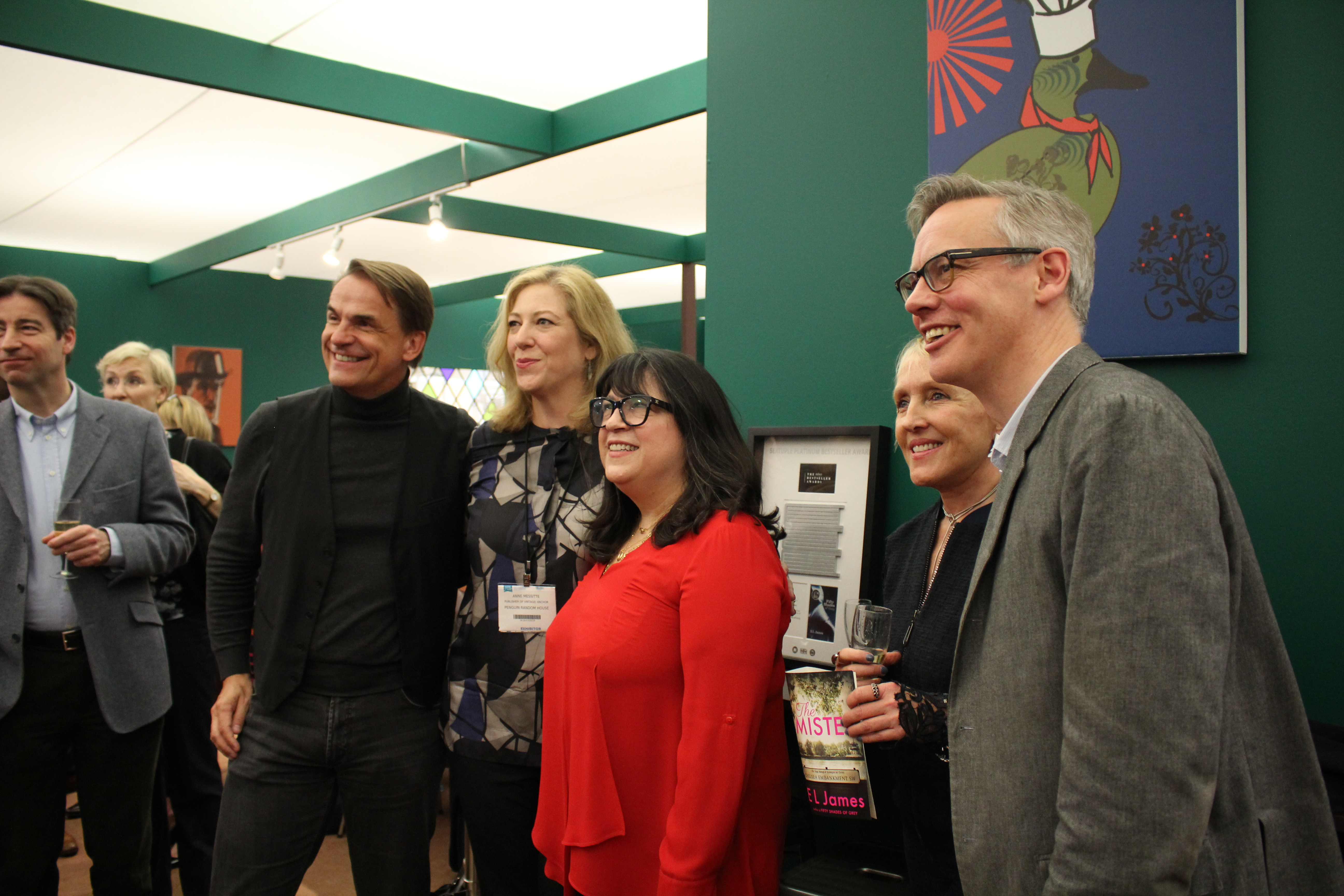 E. L. James at the London Book Fair 2019